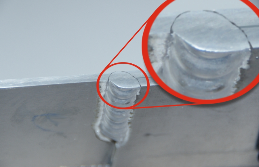 Enlarged view of a fuel tank weld